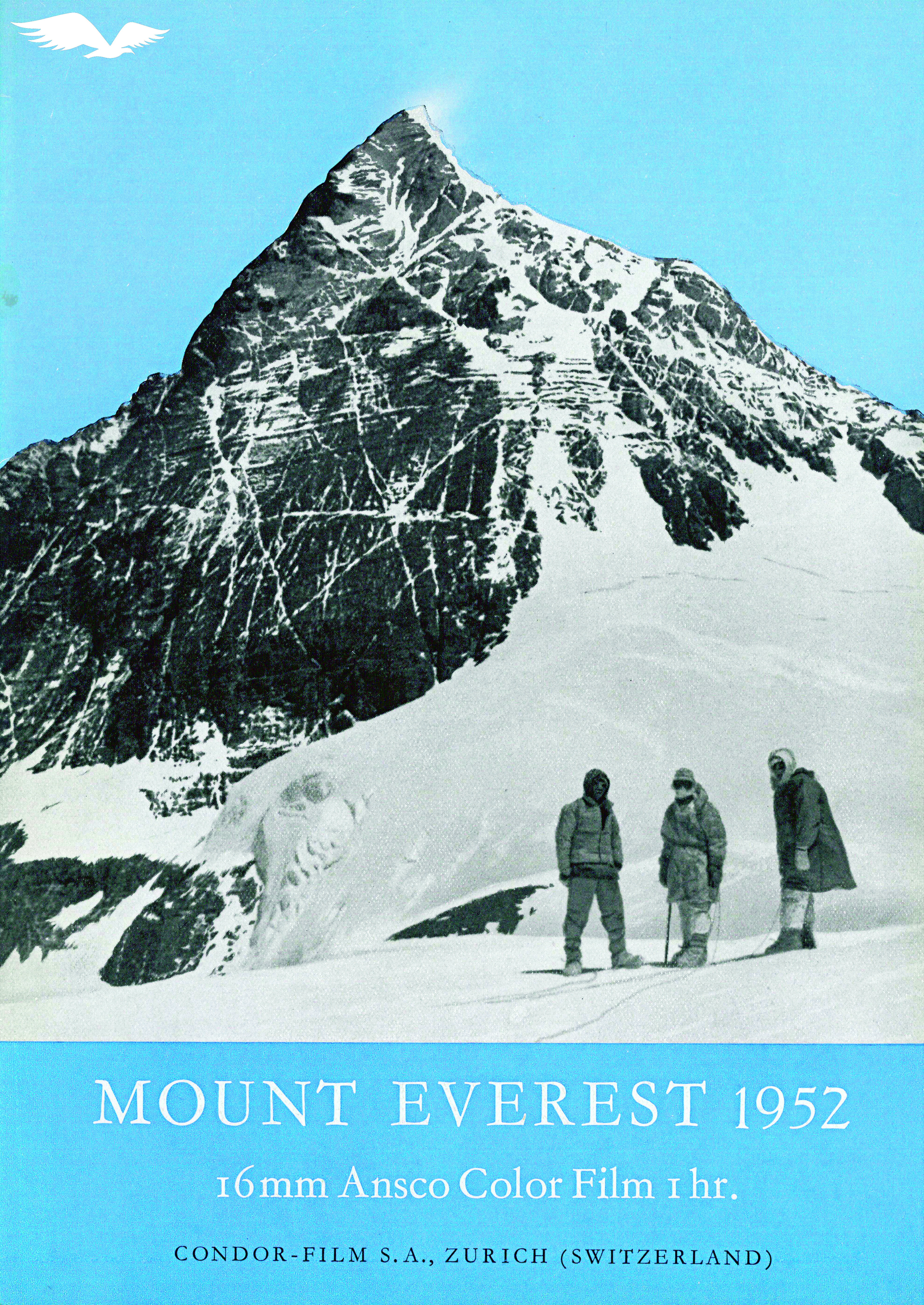 Condor Films Ltd.: Mount Everest Documentary